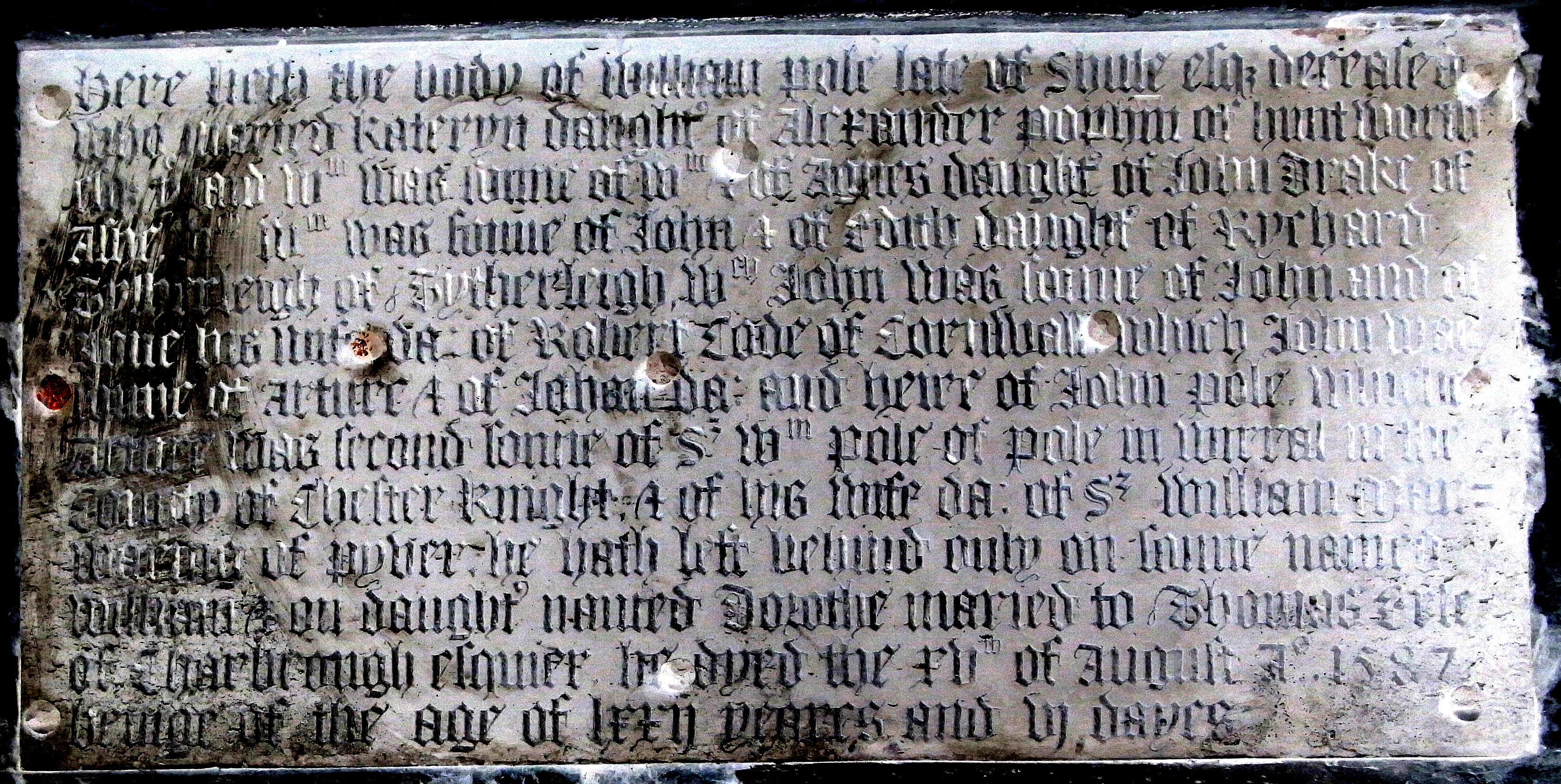 Brass plaque on monument to William Pole (1515-1587), Esquire, in the Pole Chapel, Colyton Church, Devon. Inscription: "Here lieth the body of William Pole late of Shute, Esq., deceased who maryd Kateryn daught. of Alexander Popham of Huntworth, Esq. Ye said Wm. was sonne of Wm. & of Agnes daught. of John Drake of Ashe wch. Wm. was sonne of John & of Edith daught of Rychard Tytherleigh of Tytherleigh; wch. John was sonne of John and of Jone his wife da. of Robert Code of Cornwall; which John was sonne of Arture & of Johan, da. and heire of John Pole; which Arture was second sonne of Sr. Wm. Pole of Pole in Wirral in the county of Chester, knight, & of his wife da. of Sr. William Manwaring of Pyver(?). He hath left behind only on sonne named William & on daught. names Dorothie maried to Thomas Erle of Charbrough, Esquier. He dyed the XVth of August A(nn)o 1587 beinge of the age of lxxii yeares and vi dayes".